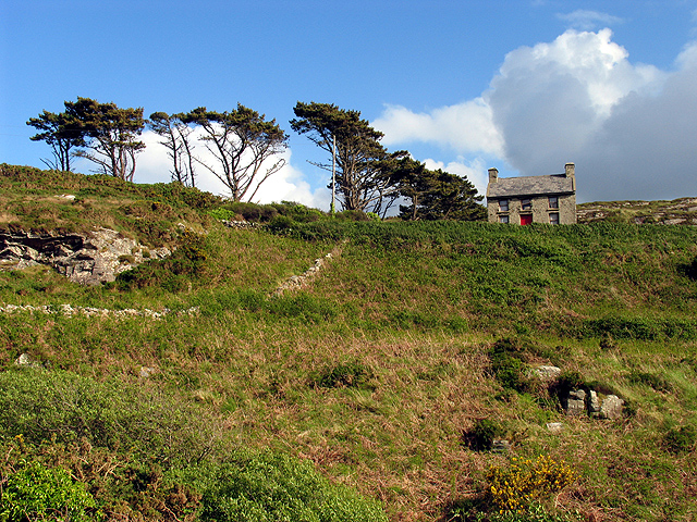 House on the Hill. This picture was taken from the road on the edge of the adjacent grid square looking south east towards the coast, using the zoom lens to hone in on the hillside. This house lies north east of the peak.